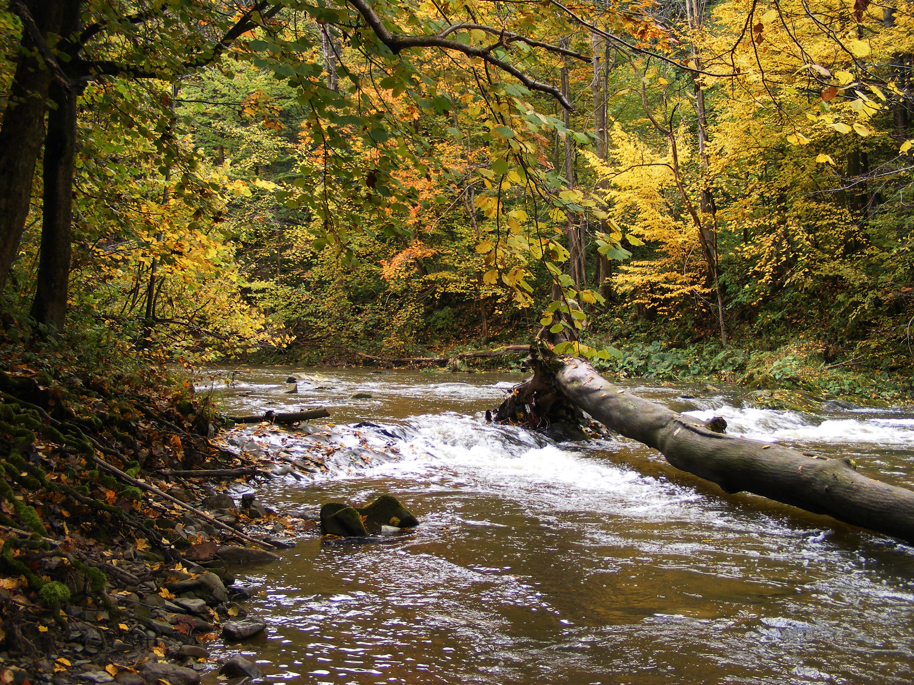 Jasiołka River near Daliowa